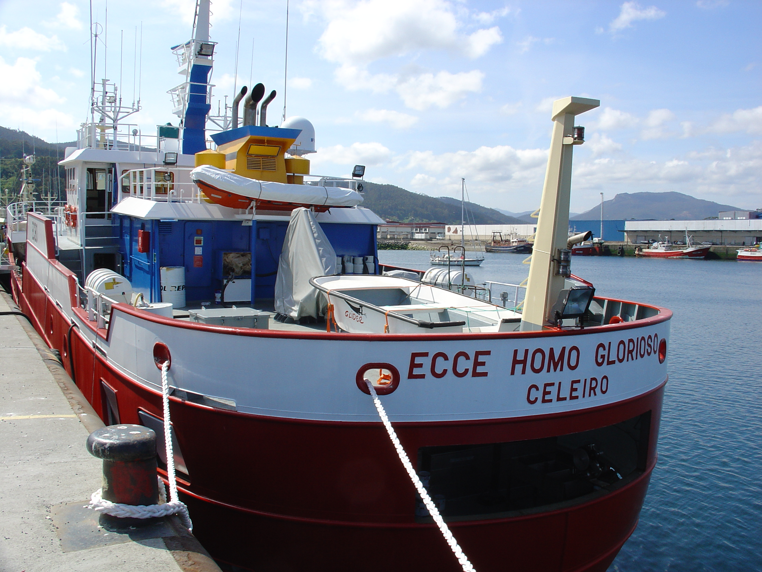 "Ecce-Homo Glorioso" Vessel at Celeiro Port (Viveiro)